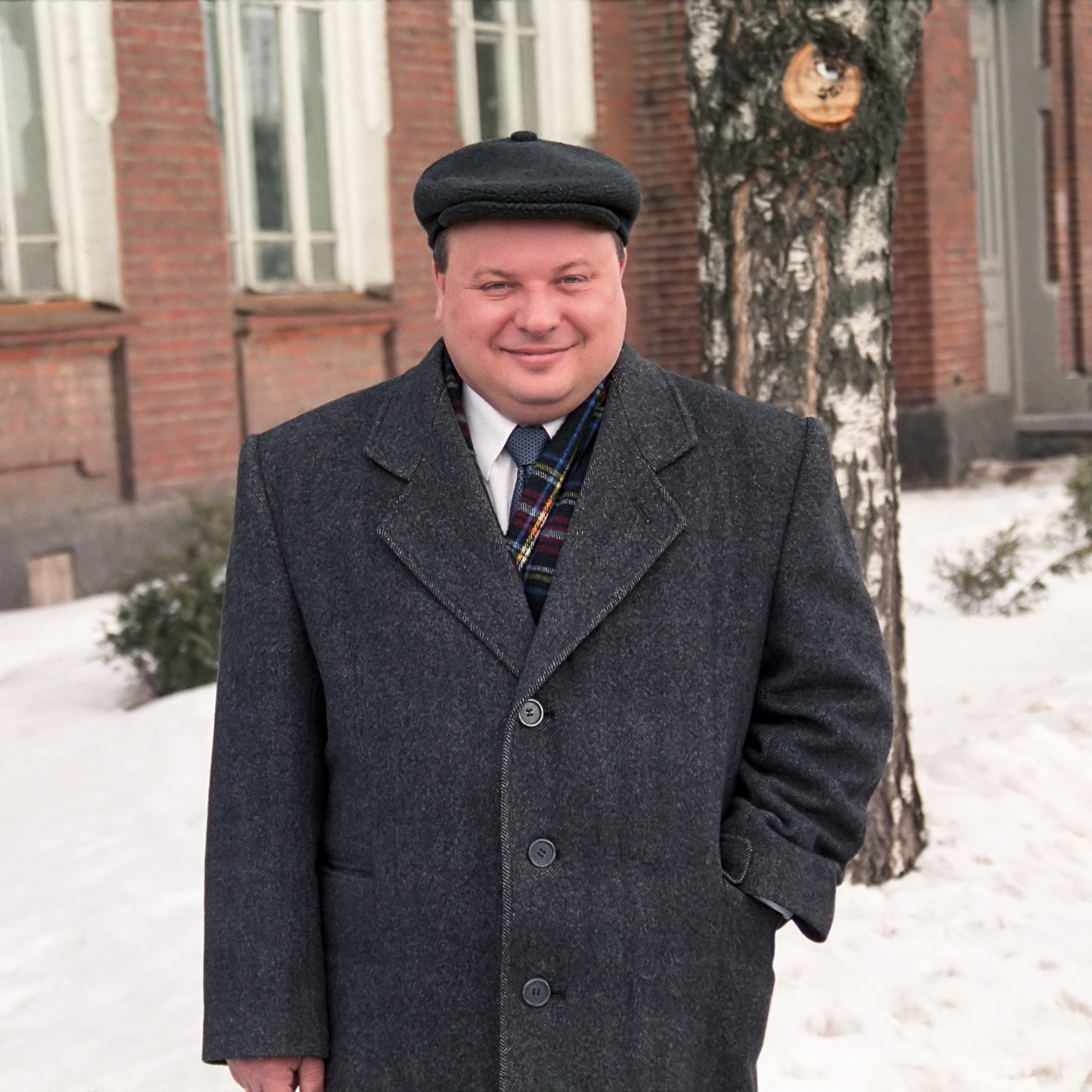 Yegor Gaidar, former Russian minister of finances, visiting Pereslavl.